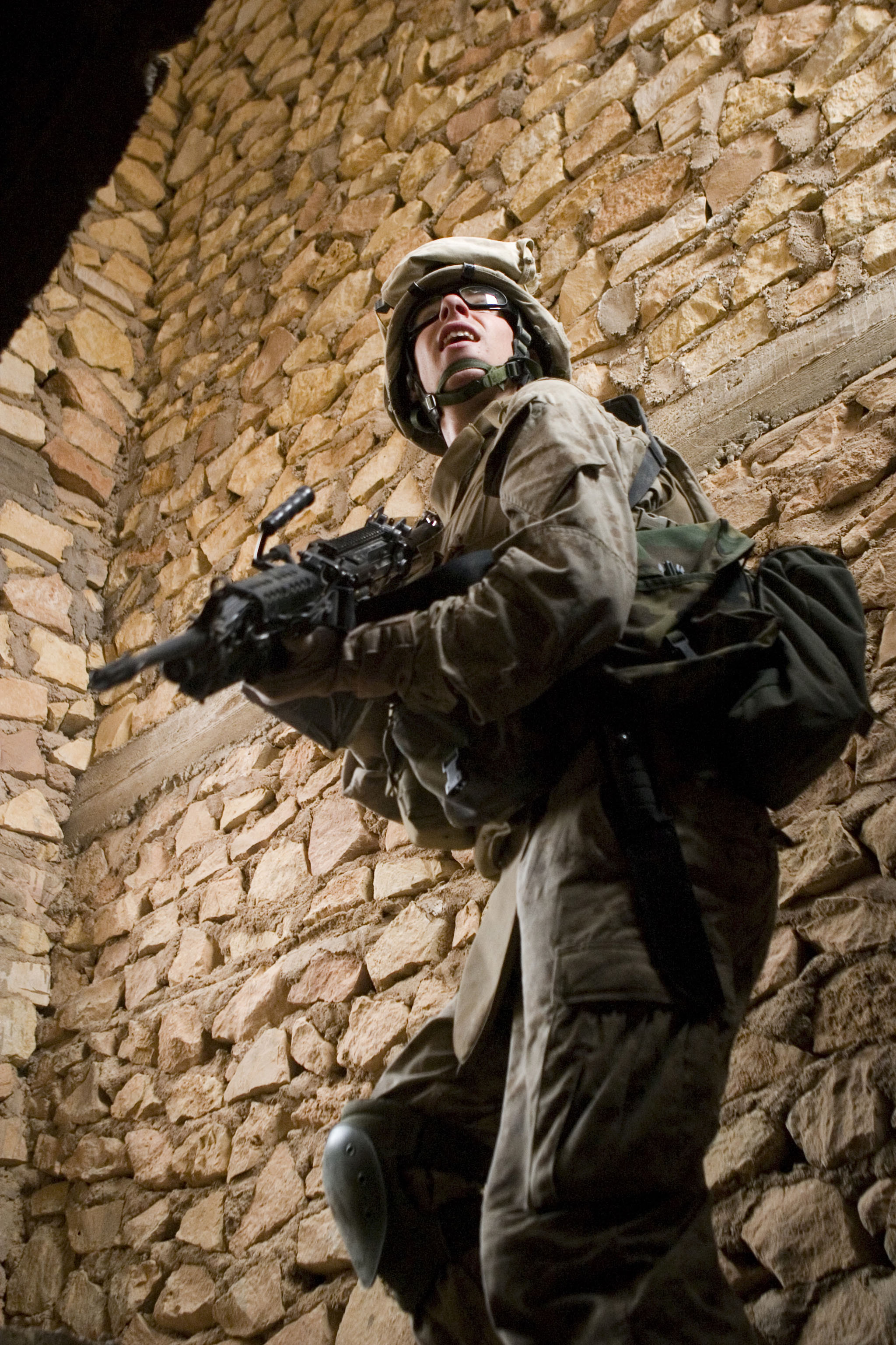 A U.S. Marine with the 1st Battalion, 2nd Marine Regiment, clears the second floor of a building in Ar Rutbah, Iraq, on May 10, 2007. Marines conducted security patrols to disrupt insurgent capabilities to communicate.